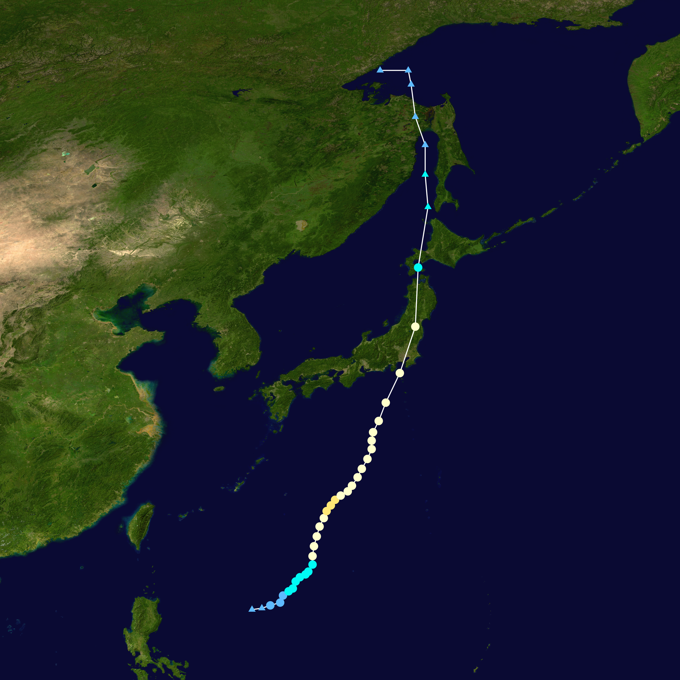 Typhoon Thad 1981 track. Uses the color scheme from the Saffir-Simpson Hurricane Scale.